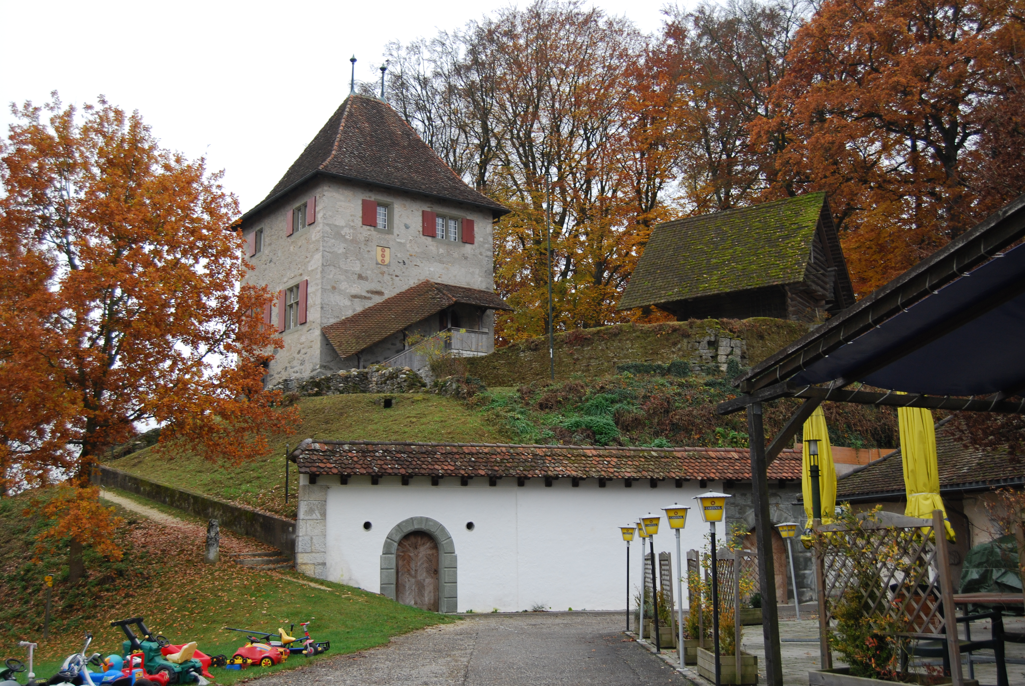 Castle Buchegg, Kyburg-Buchegg, canton of Solothurn, Switzerland